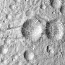 View of Hassan crater on Saturn's moon Enceladus. This image has a resolution of 170 meters per pixel. It was taken on July 14, 2005 by the Cassini Spacecraft's Imaging Sub-System.